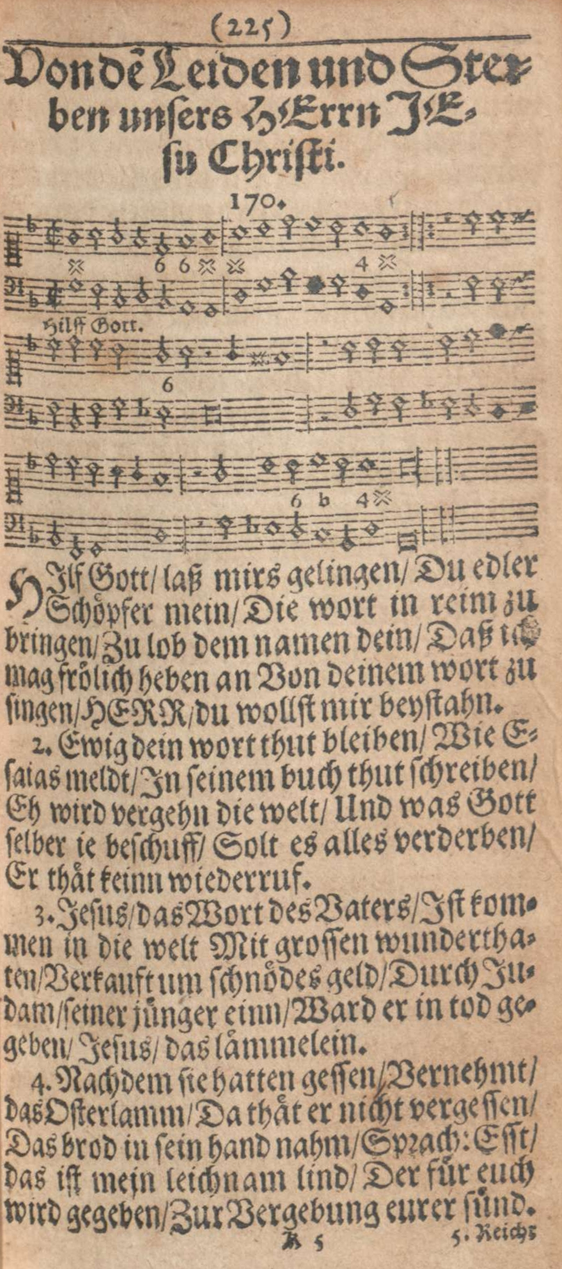 First page of the 16th century hymn Hilf, Gott, laß mirs gelinge by Heinrich Müller in the 1662 Frankfurt edition of the Lutheran hymnbook Praxis Pietatis Melica of Johann Crüger. The 13 verses, of which four appear on this page, start with the initials of "Heinrich Müler". A slight adaptation of the melody here was used by J. S. Bach in the chorale prelude BWV 624 from Orgelbüchlein.